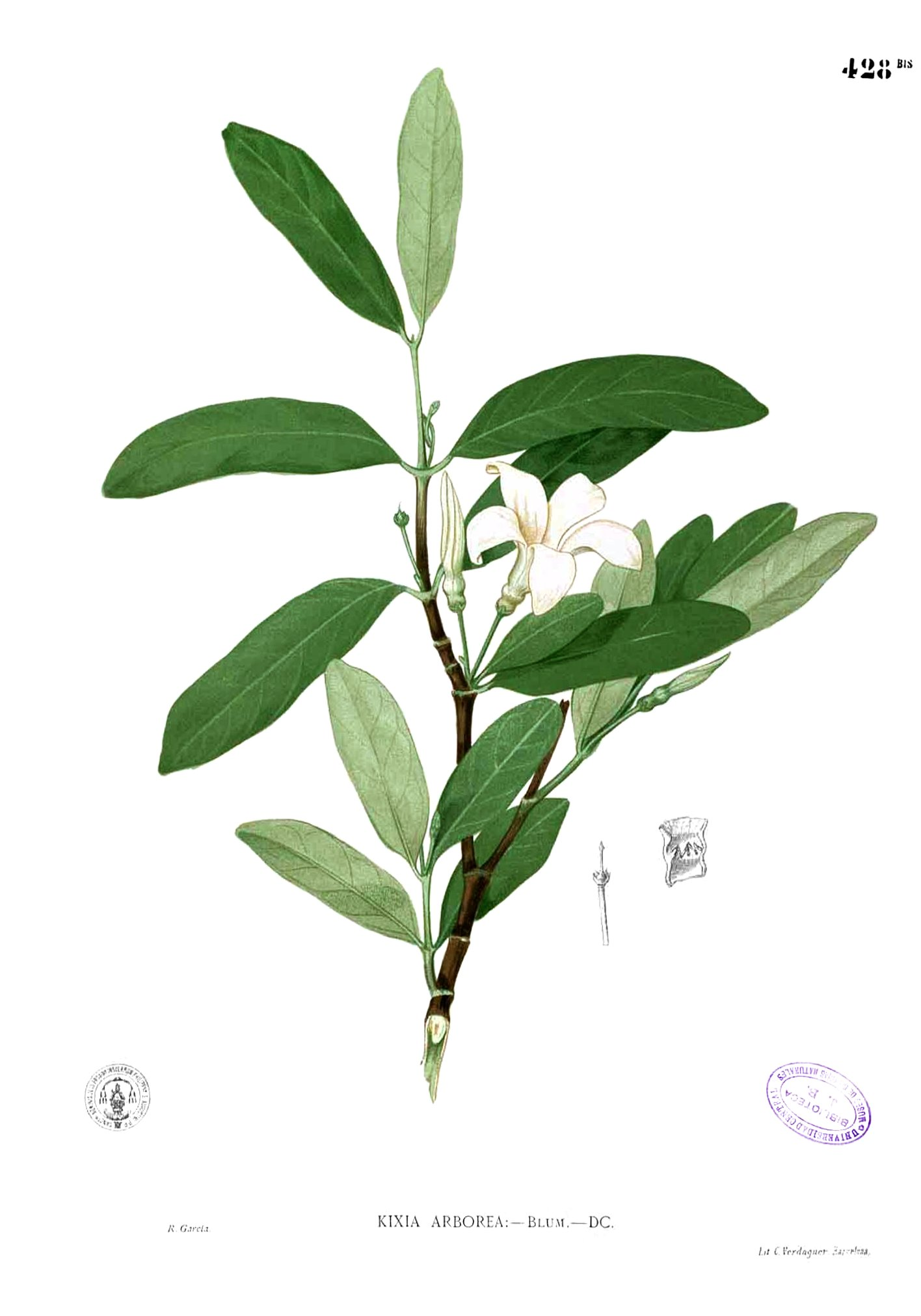 Plate from book Kibatalia arborea